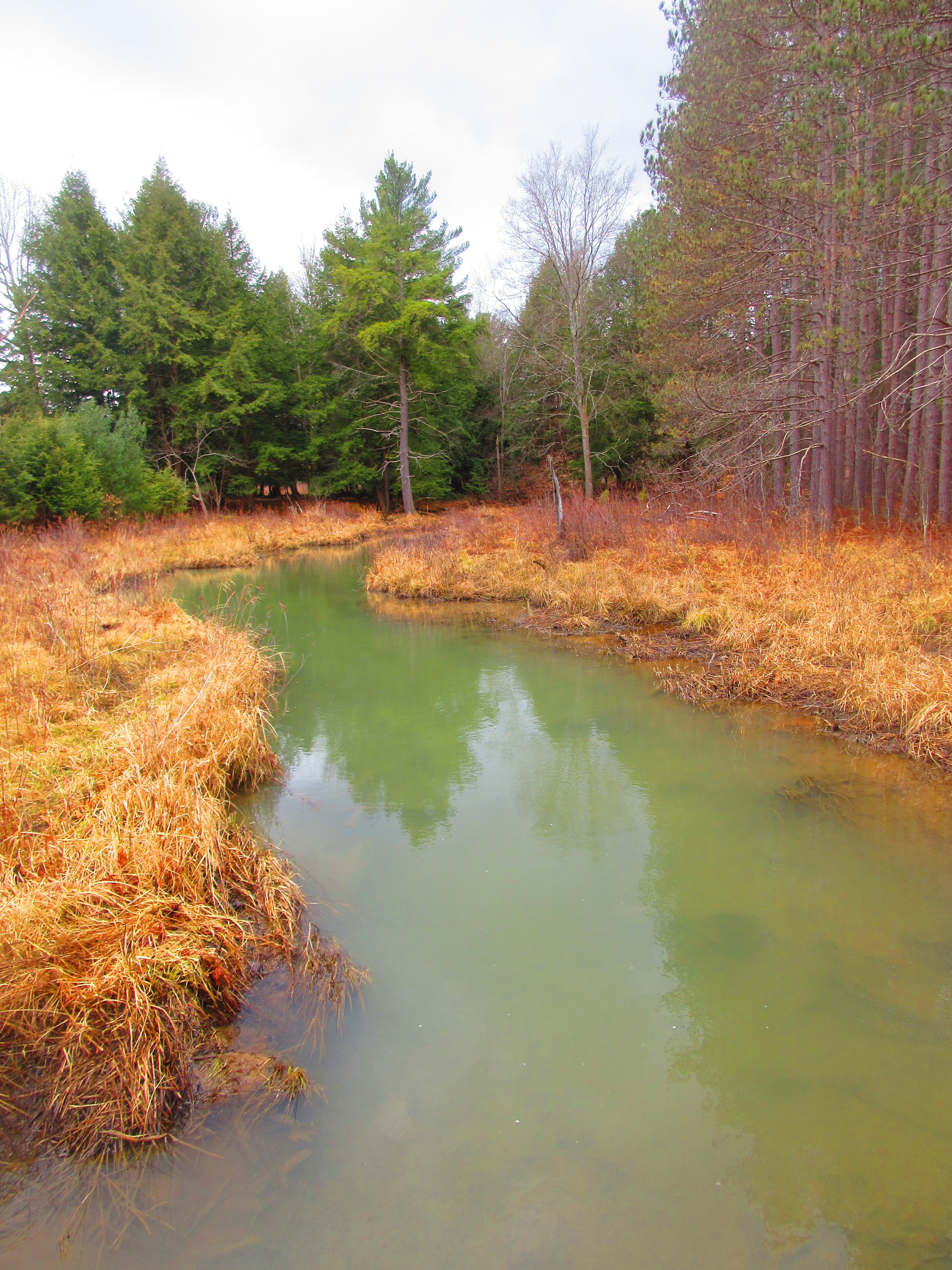 Parker Dam boardwalk